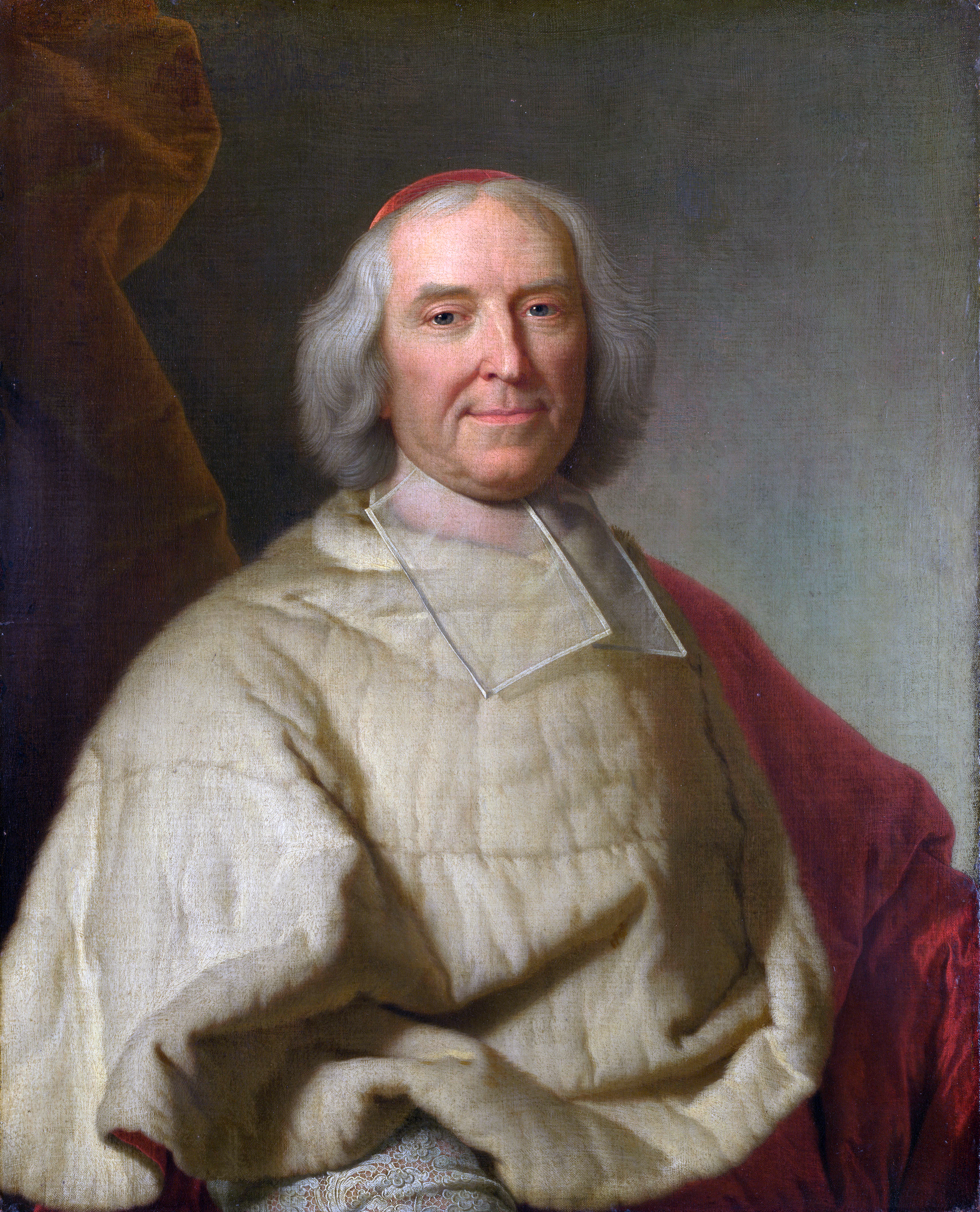 Portrait of André-Hercule de Fleury (1653-1743) This painting is probably a copy of an original by Rigaud. Many copies were made in his workshop.